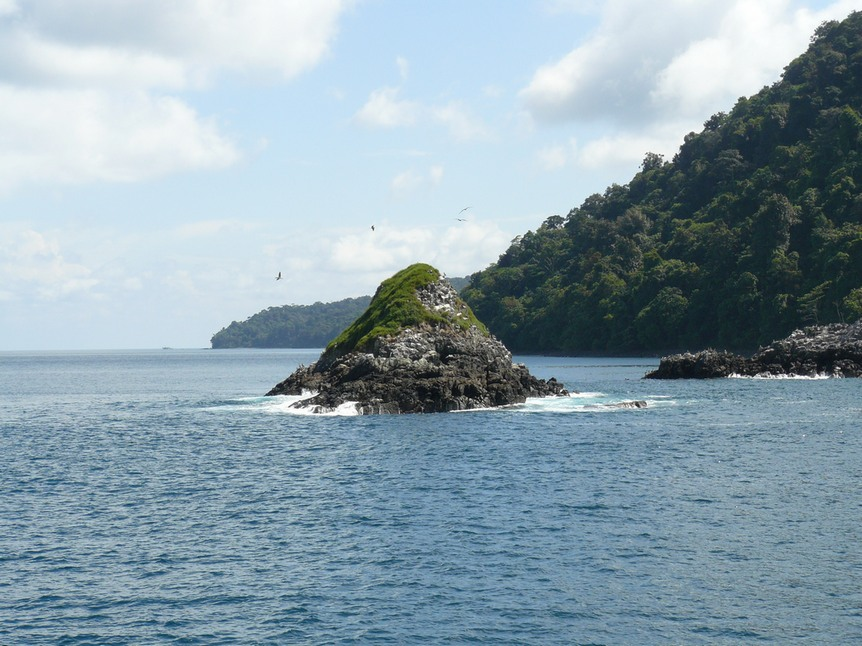 Looking south from the northern tip of Gorgona. The rock El Horno is in the foreground. The birds are Blue-footed Boobies.